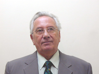 Picture of Héctor Recalde